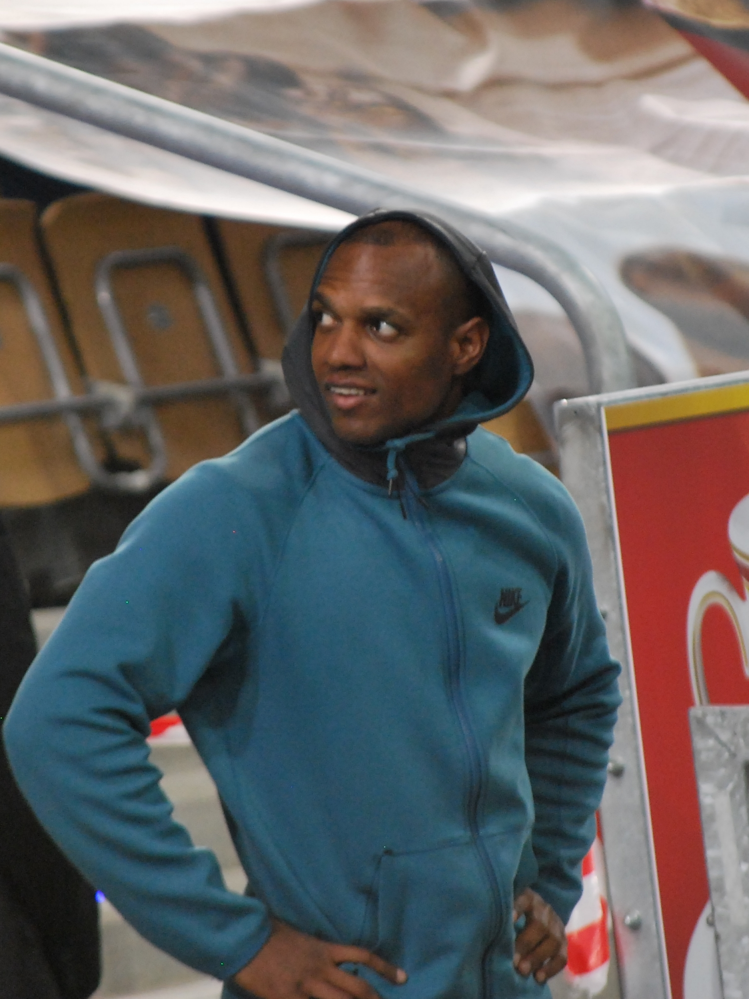 Pedros Cup 2015 Łódź, Yunier Perez, sprinter from Cuba